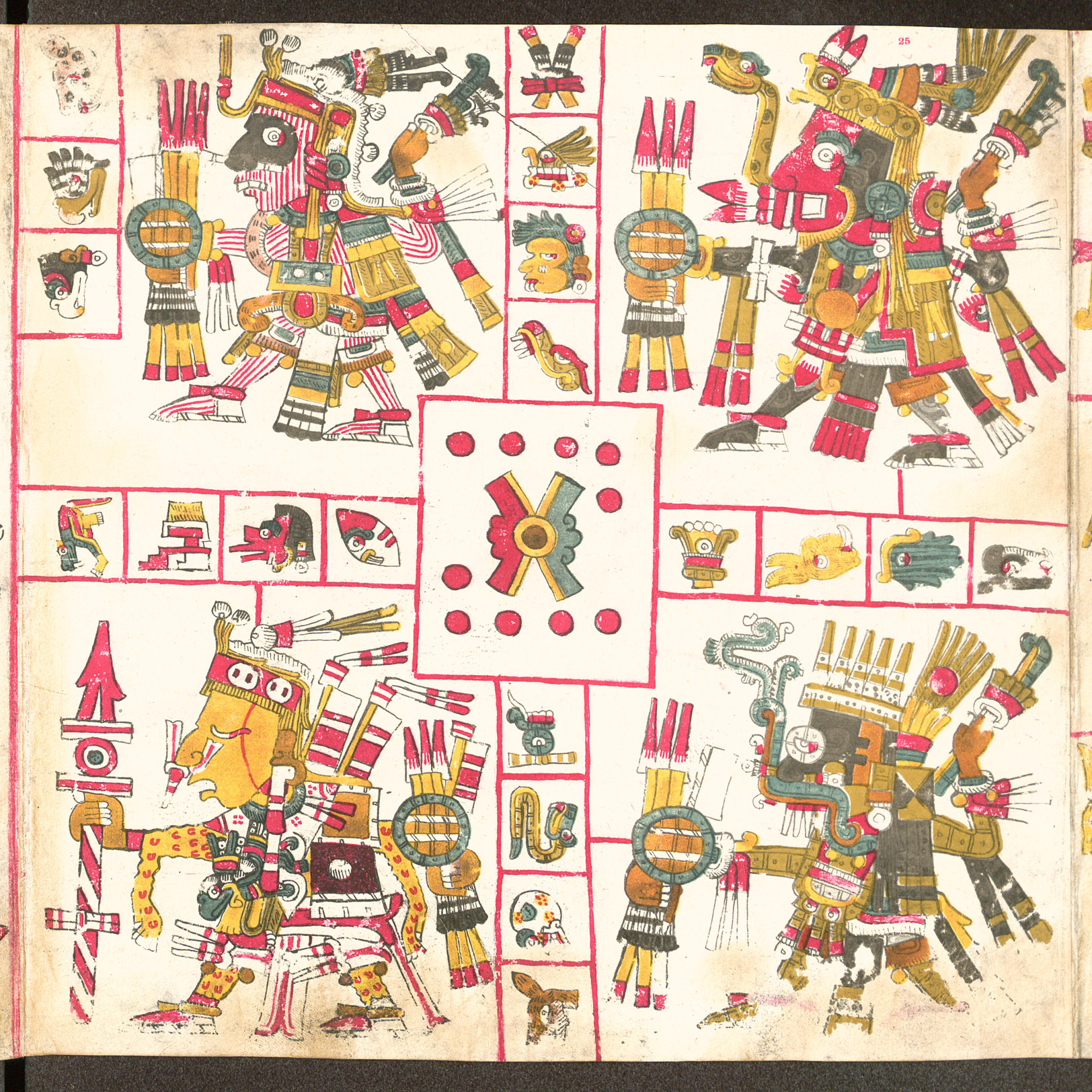 Page 25 of the Codex Borgia.